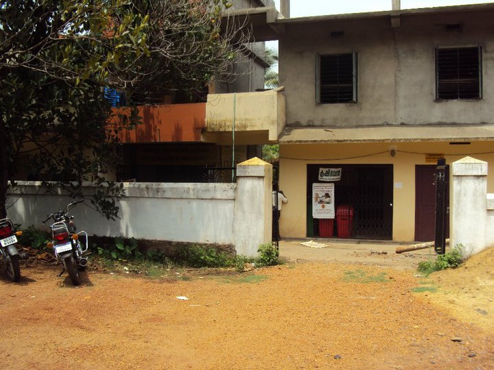 This is image take from achanamabalam office of Kannamgalam panchayath